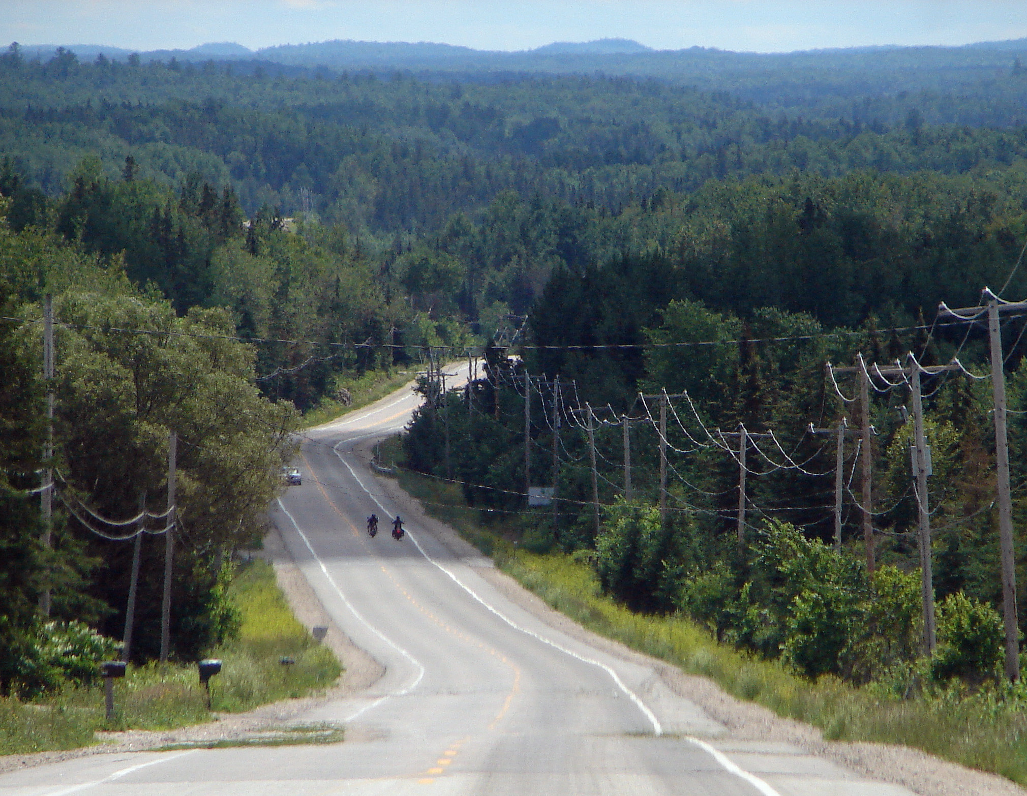 Highway 105 near Maniwaki in Quebec, Canada.